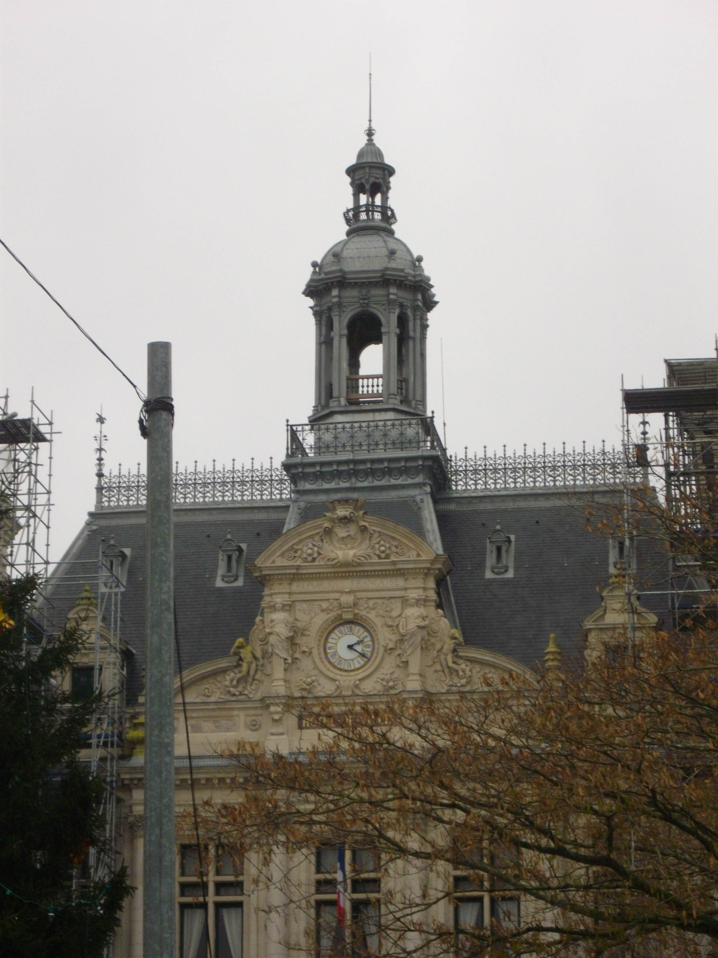 Ridge turret of Vannes' town hall (Morbihan, France)